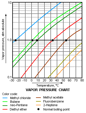 This image is a chart of vapor pressure versus temperature, for various liquids. The chart's y-axis is logarithmic and the x-axis is linear. It includes data for Propane, Methyl chloride, Butane, neo-Pentane, Diethyl ether, Methyl acetate, Fluorobenzene, and 2-Heptene.